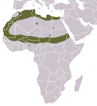 Saharan Striped Polecat (Ictonyx libycus) range